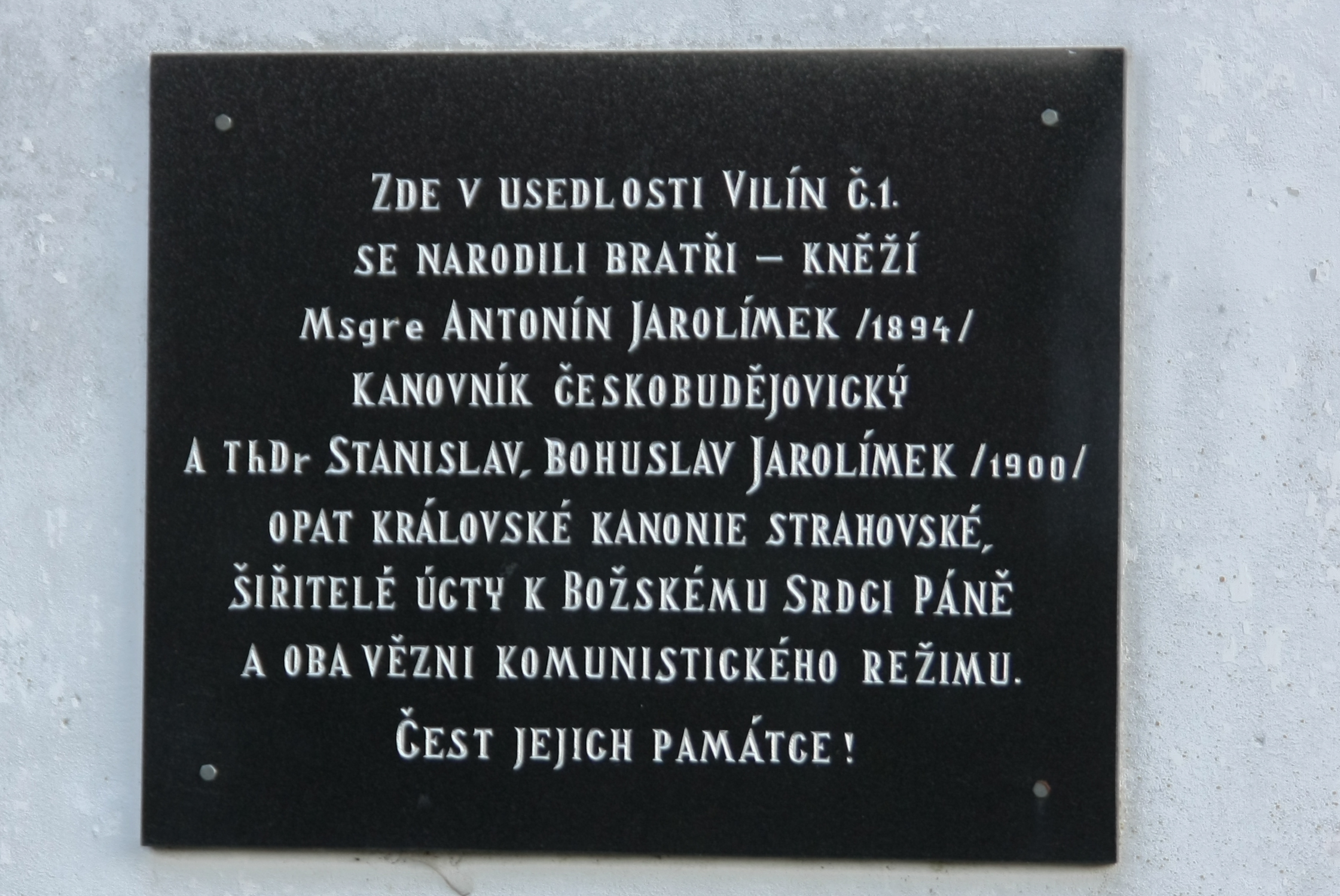 Memorial sign in municipality Vilín, Písek District, South Bohemian Region, Czechia